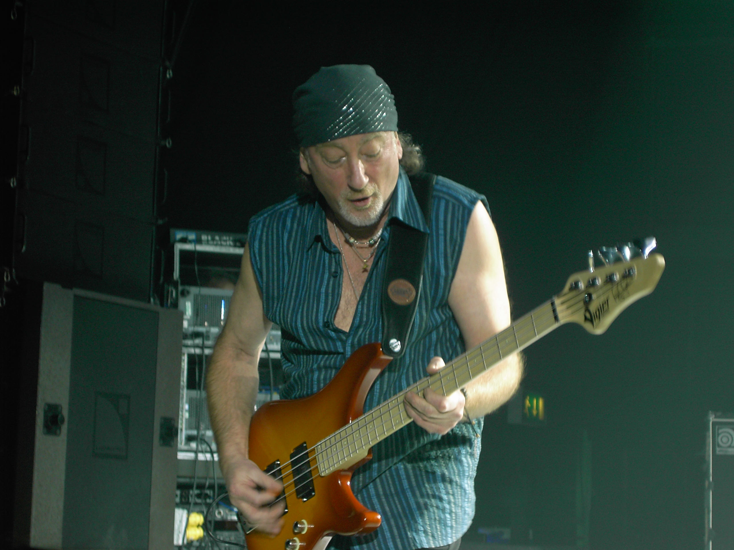 Roger Glover, performing live with Deep Purple at the London Astoria theatre